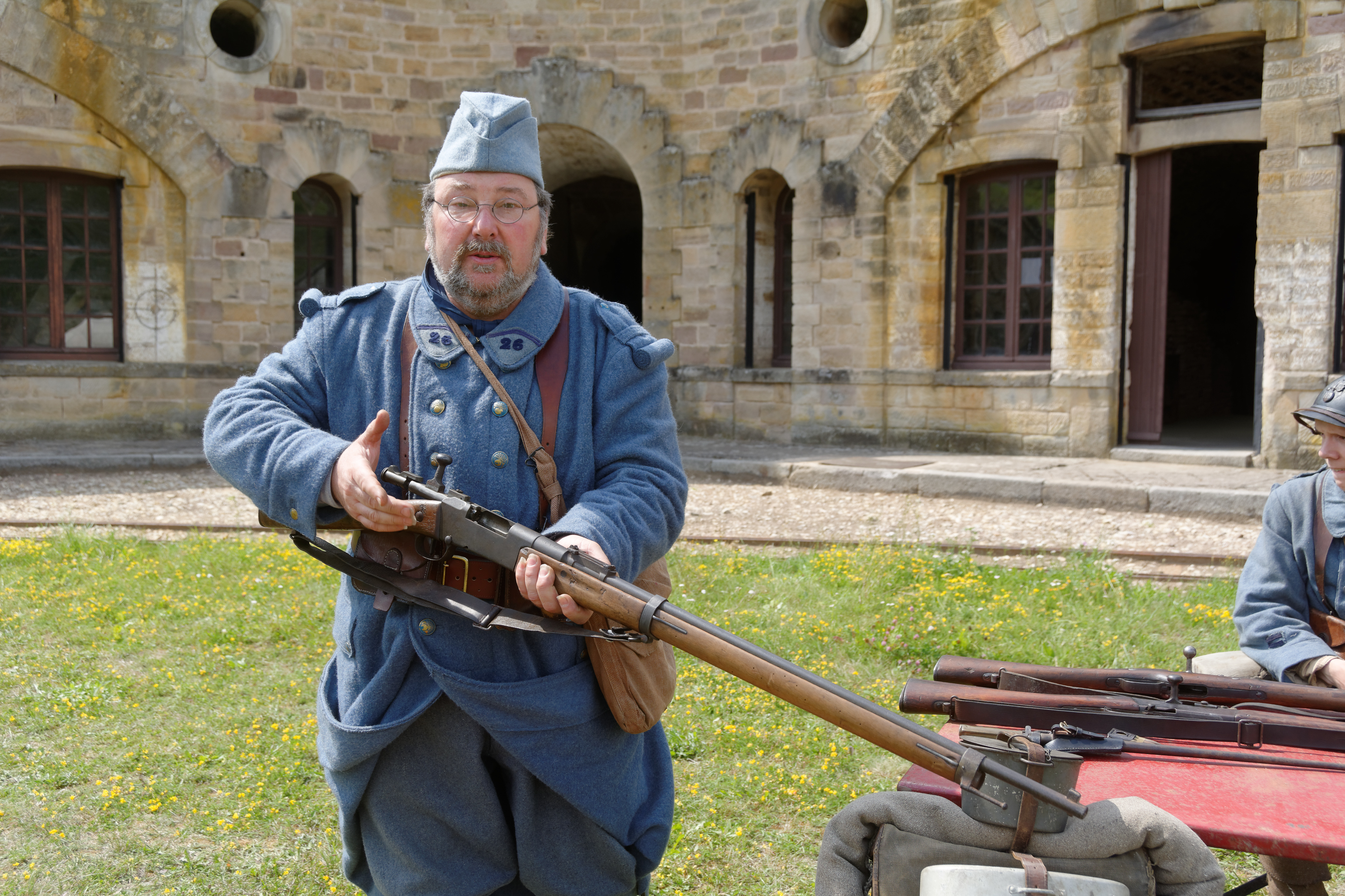 Personality rights warningAlthough this work is freely licensed or in the public domain, the person(s) shown may have rights that legally restrict certain re-uses unless those depicted consent to such uses. In these cases, a model release or other evidence of consent could protect you from infringement claims.